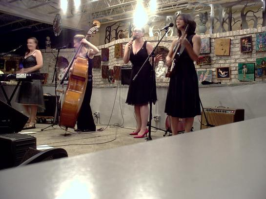 The Lascivious Biddies, performing live at Gravity Lounge in Charlottesville, Virginia.